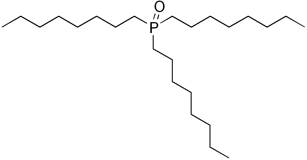 chemical structure of trioctylphosphine oxide